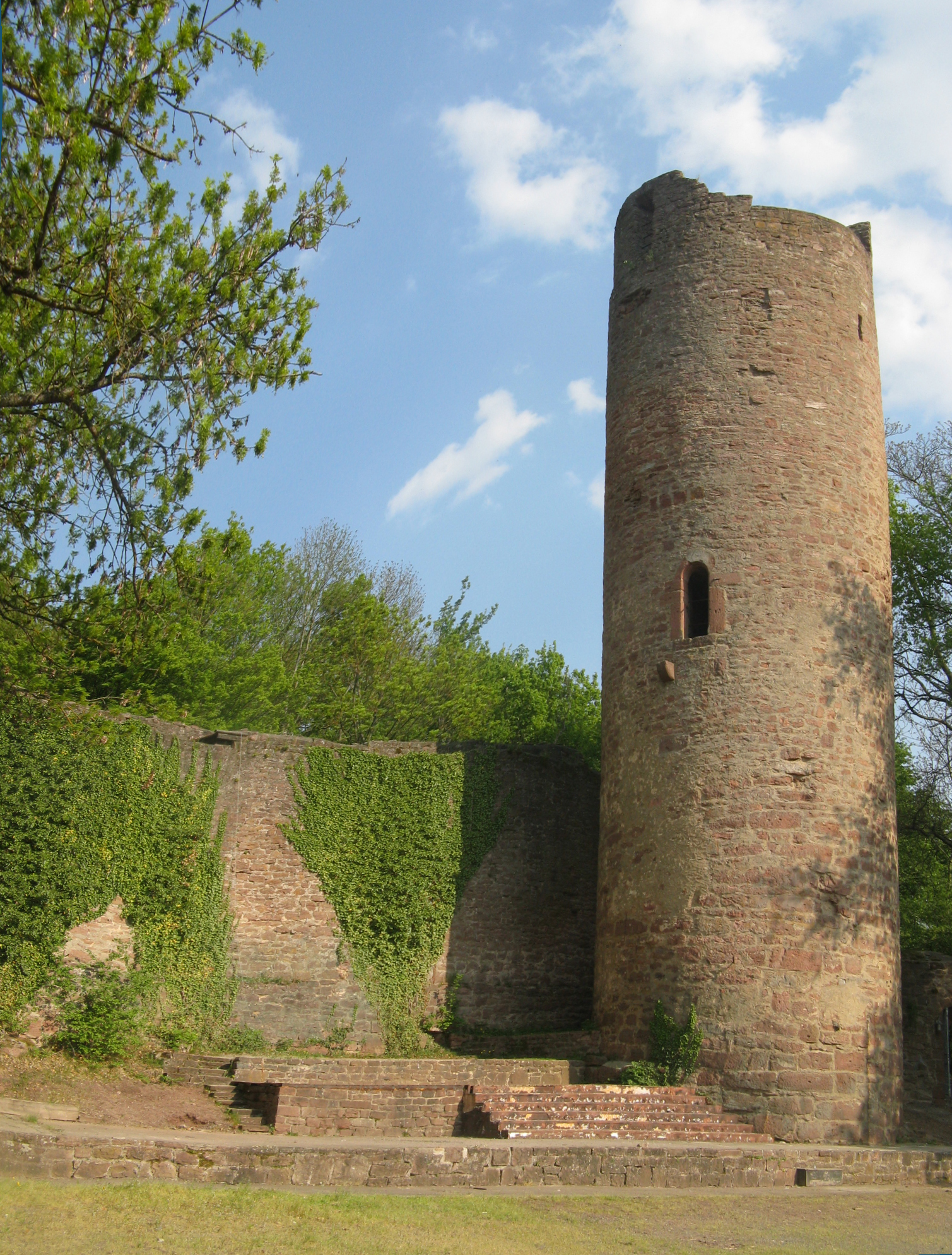 Scherenburg Castle, Bergfried, Gemünden am Main / Germany